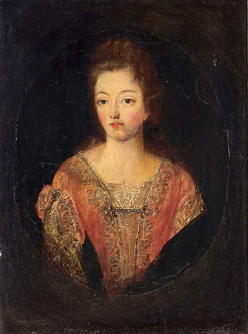 Countess Sophia Albertine of Erbach-Erbach, Duchess of Saxe-Hildburghausen (1683-1742)